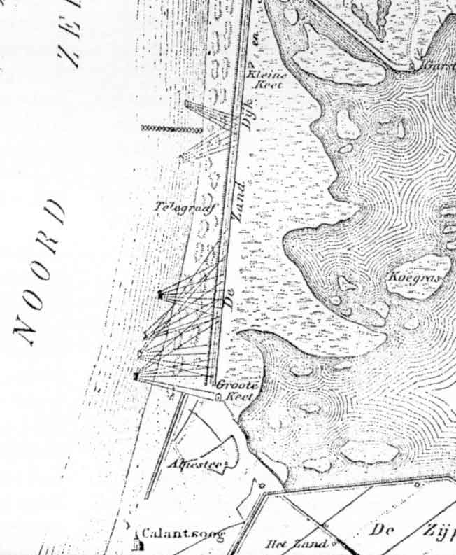 Map of the British amphibious landing near Callantsoog in North Holland, 26/27 August 1799, from C.R.T Krayenhoff, Geschiedkundige Beschouwing van den Oorlog op het grondgebied der Bataafsche Republiek in 1799 (1832)